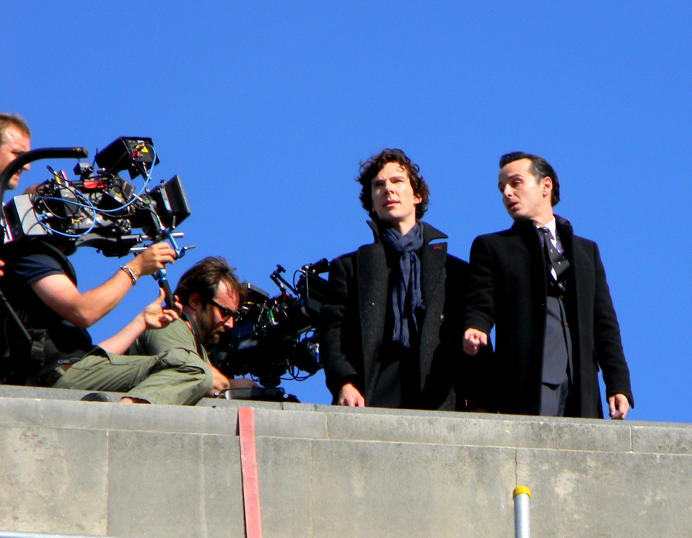 Filming the second series of "Sherlock", "The Reichenbach Fall" episode.